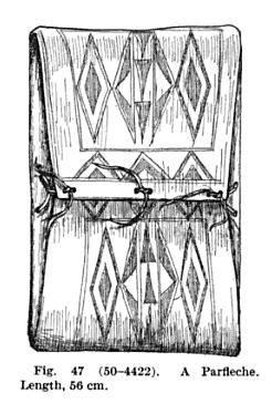 19th century knowledge indian lore parfleche